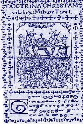 Thambiraan Vanakkam; First book printed in Tamil in Tamil script. The book was published by the Portuguese Jesuit priest Henrique Henriques in October 20, 1578 at Kollam, Kerala. It is a book on Christianity (a translation of "Doctrina Christam" from Portuguese)